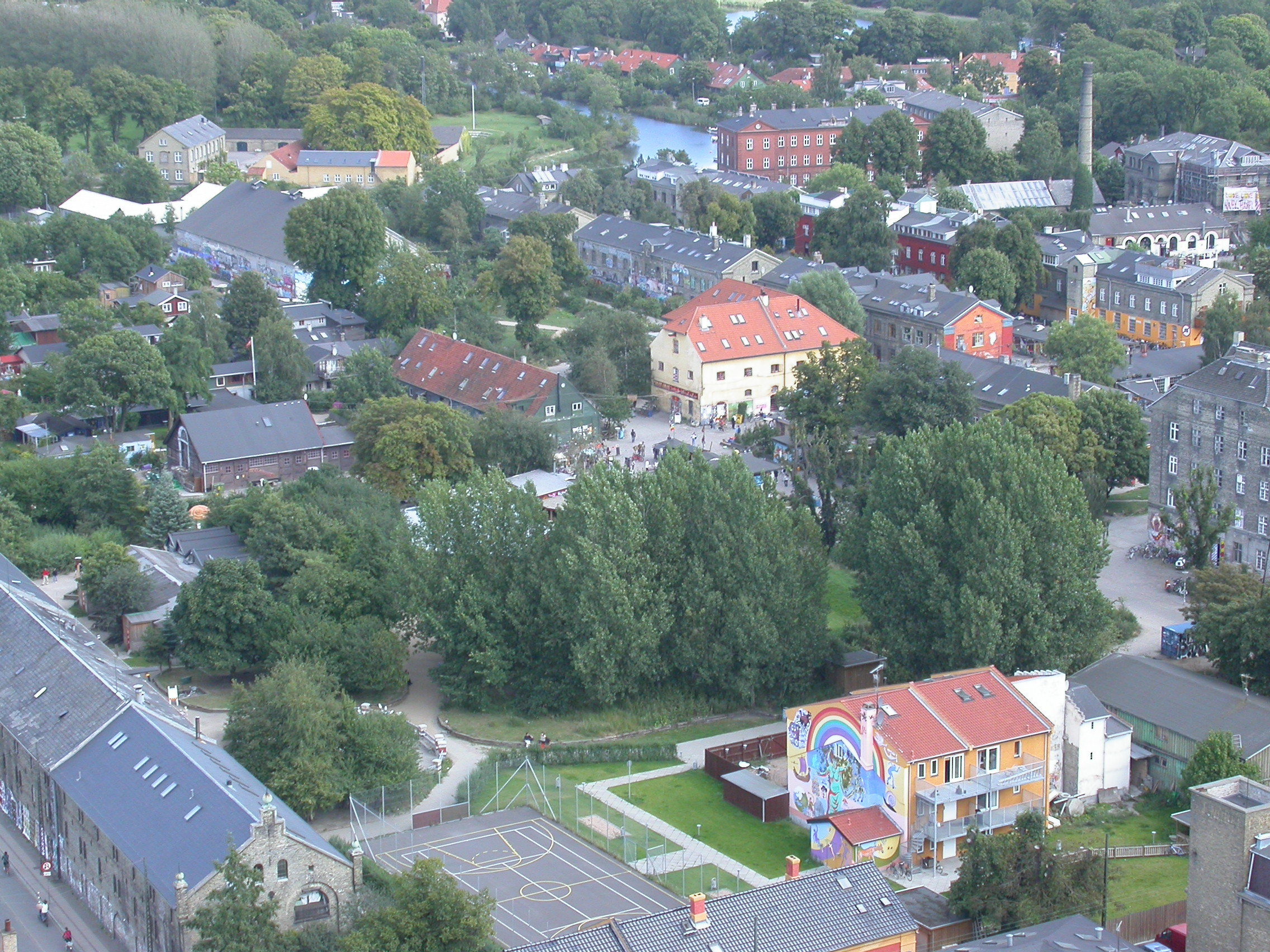 Christiania in Copenhagen, Denmark from above